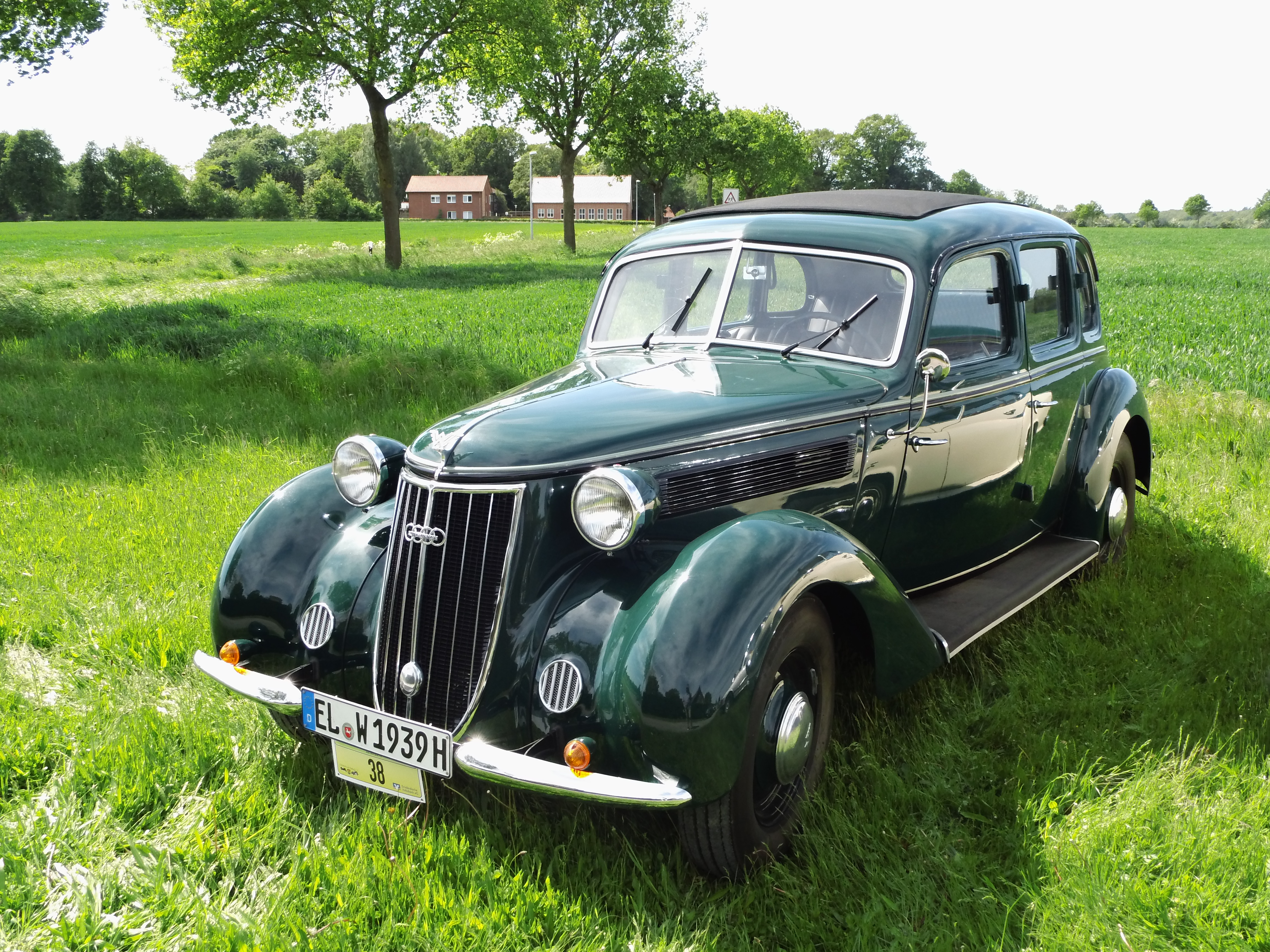 1939 Wanderer W 23 Felsen 02.06.2013 9.Touristische Oldtimerausfahrt Oldtimerfreunde Emsland